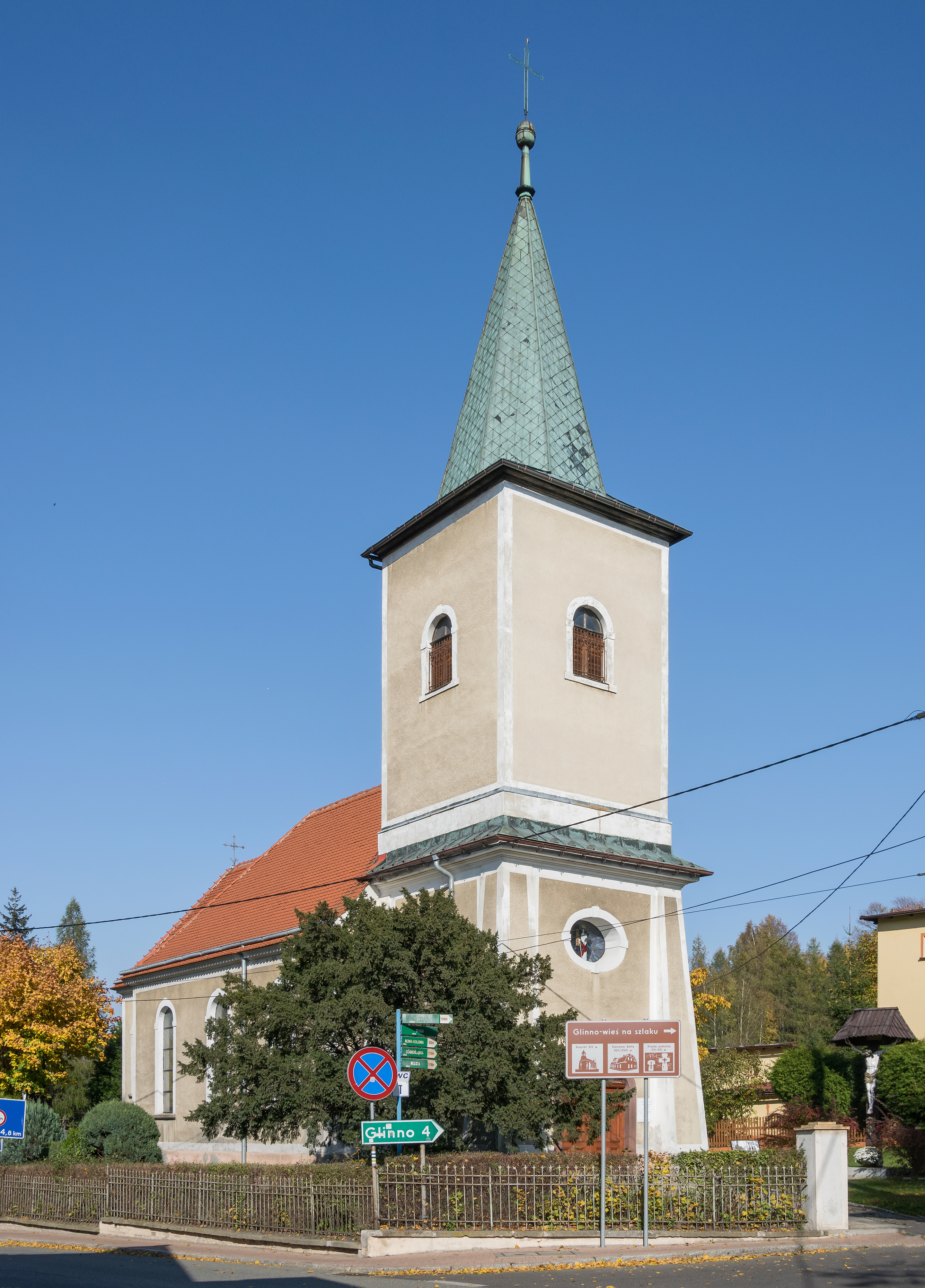 Saint Barbara church in Walim Wikidata has entry Q30083177 with data related to this item.